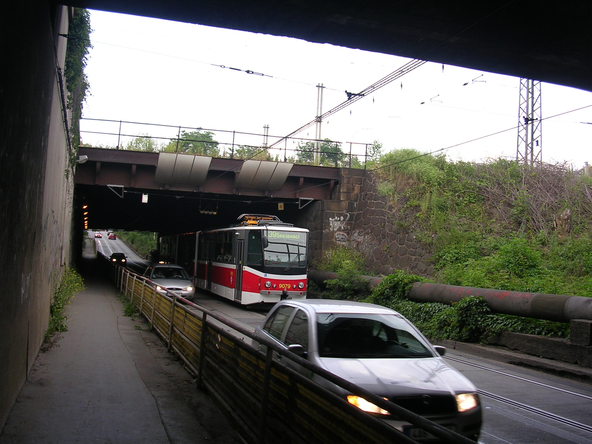 Záběhlice and Strašnice, Prague, the Czech Republic.